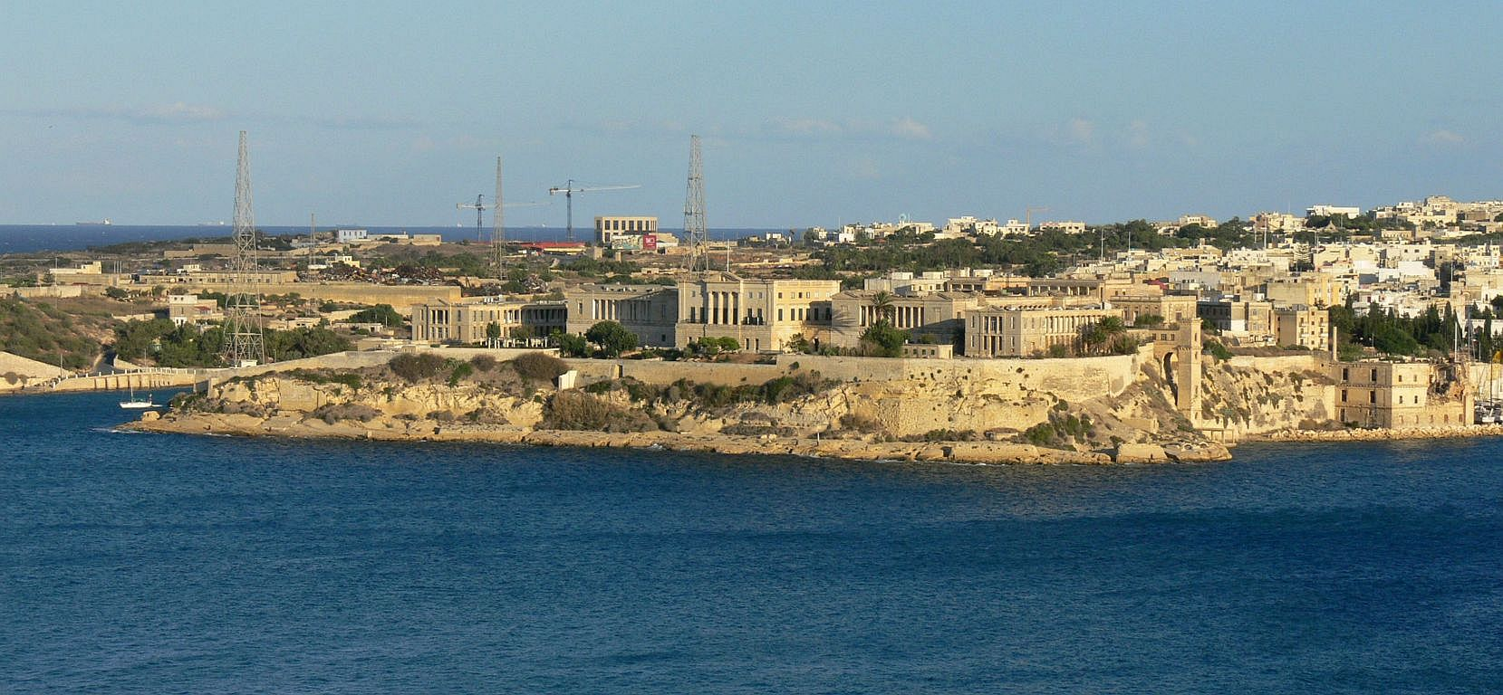 Bighi Palace, former naval hospital at Kalkara, Malta